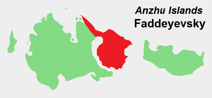 Location map